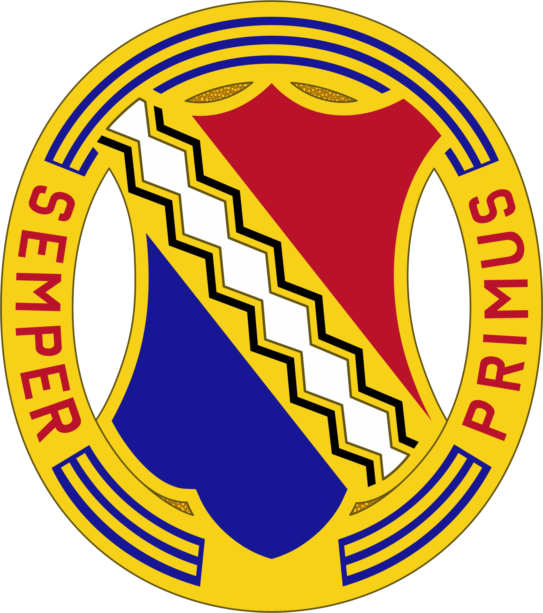 1st Infantry Regiment Distinctive Unit Insignia